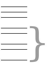 When to use a curly bracket.